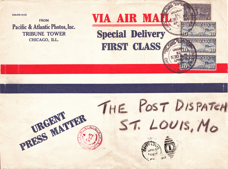 Flown large commercial corner cover carried by Charles A. Lindbergh, Chief Pilot, CAM-2, from Chicago to St. Louis, on the opening day of the route, April 15, 1926. Contractor: Robertson Aircraft Corporation, Lambert Flying Field, Anglum, MO